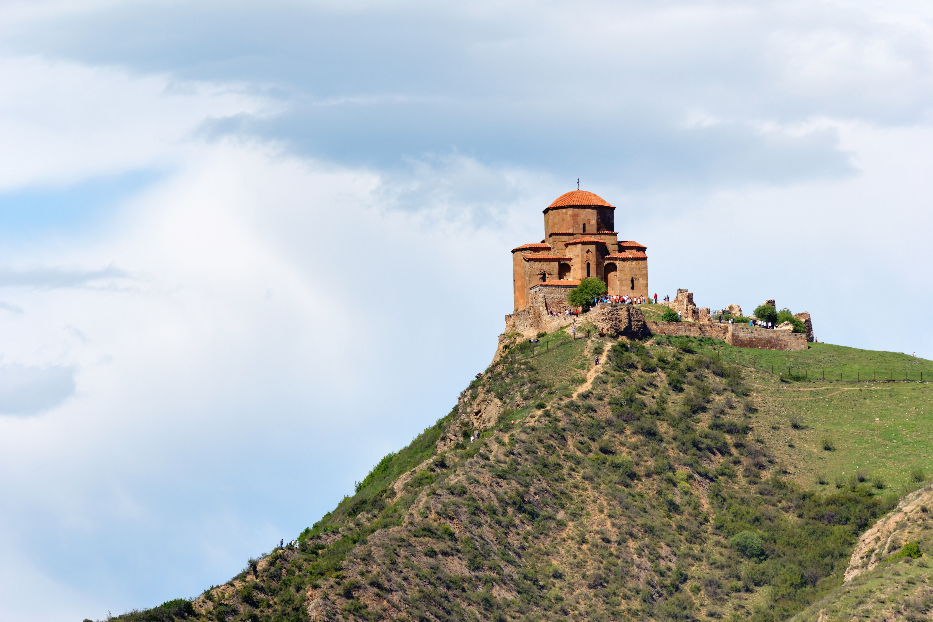 Jvari monastery, Republic of Georgia